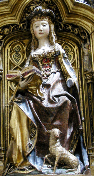 St. Agnes: 16th-century statue in wood, polychrome The statue is in St. Anne's retablo, chapel of the High Constable, Burgos Cathedral. The retablo features similar sculptures of many of the female saints most popular in the 16th century.